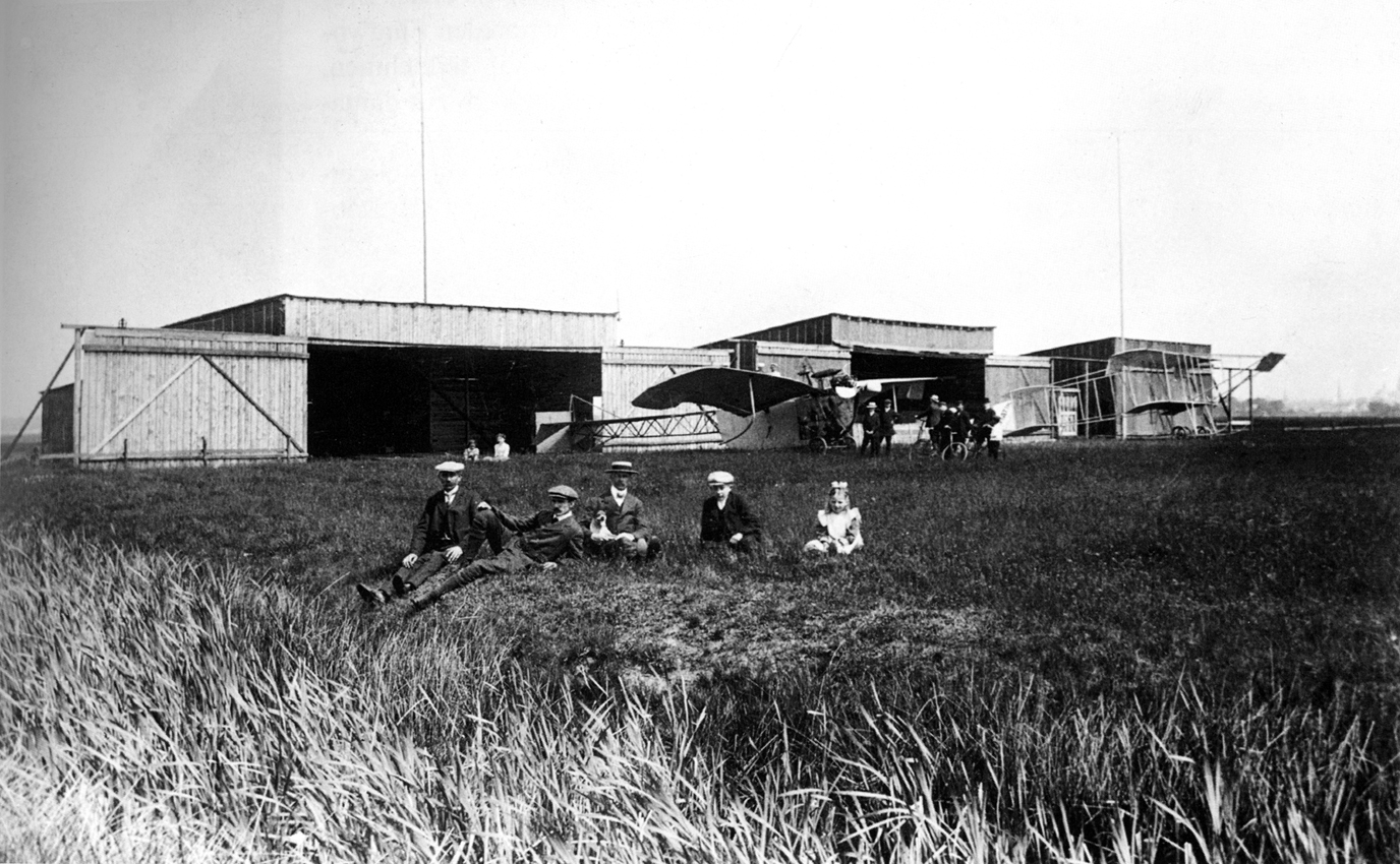 Airplanes and hangars at the newly established airfield at Neuenlander Felder in Bremen, Germany, around 1910.